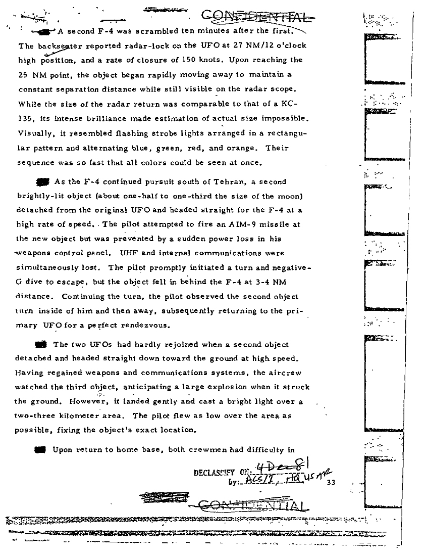 Air Force files on the Tehran UFO incident in 1976 (page 2).